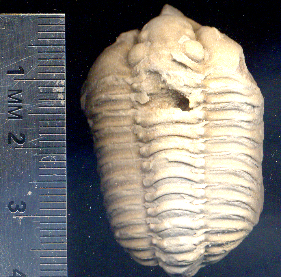 Calymene celebra Silurian period Niagaran Dolomite Milwaukee County, Wisconsin